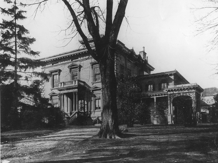 Print, Residence of Senator Mackay, Sherbrooke Street West, Montreal, QC, about 1910, Ink on paper mounted on card - Halftone - 15 x 20 cm